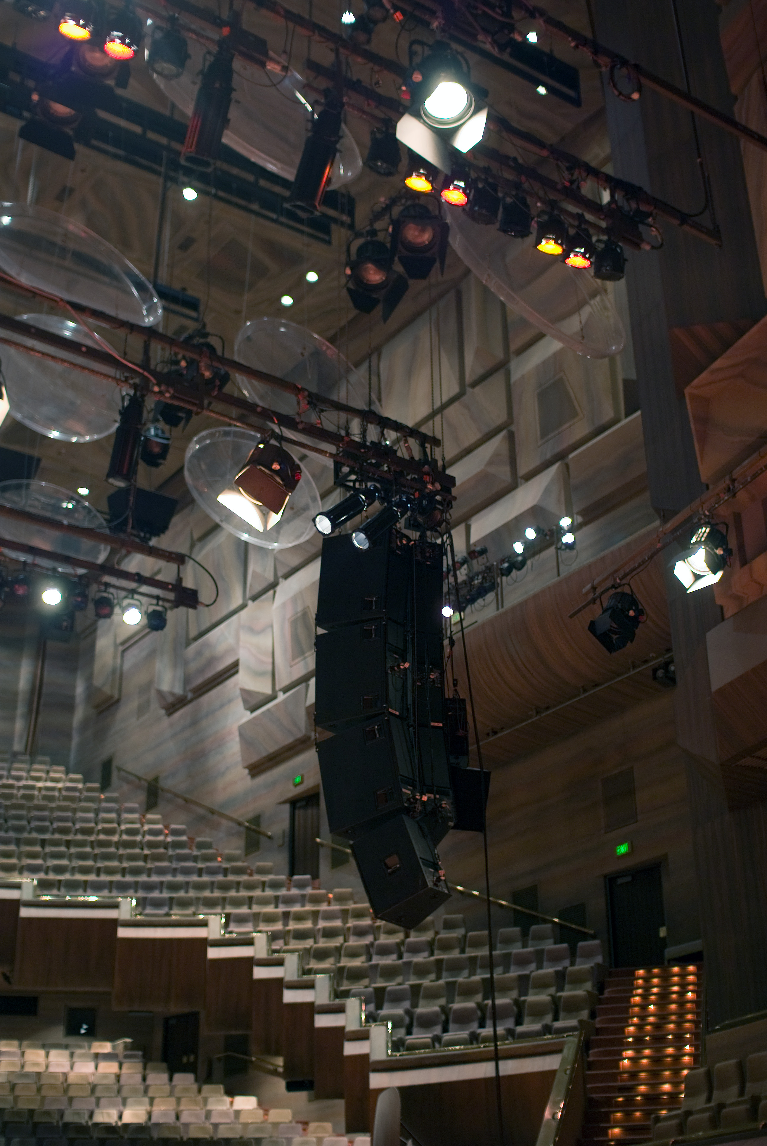 Portion of the interior of Hamer Hall, Melbourne, showing audio and lighting rigging, as well as transparent sound baffles suspended from the ceiling and further baffling on the side wall. Pictured from the rear of the stage.